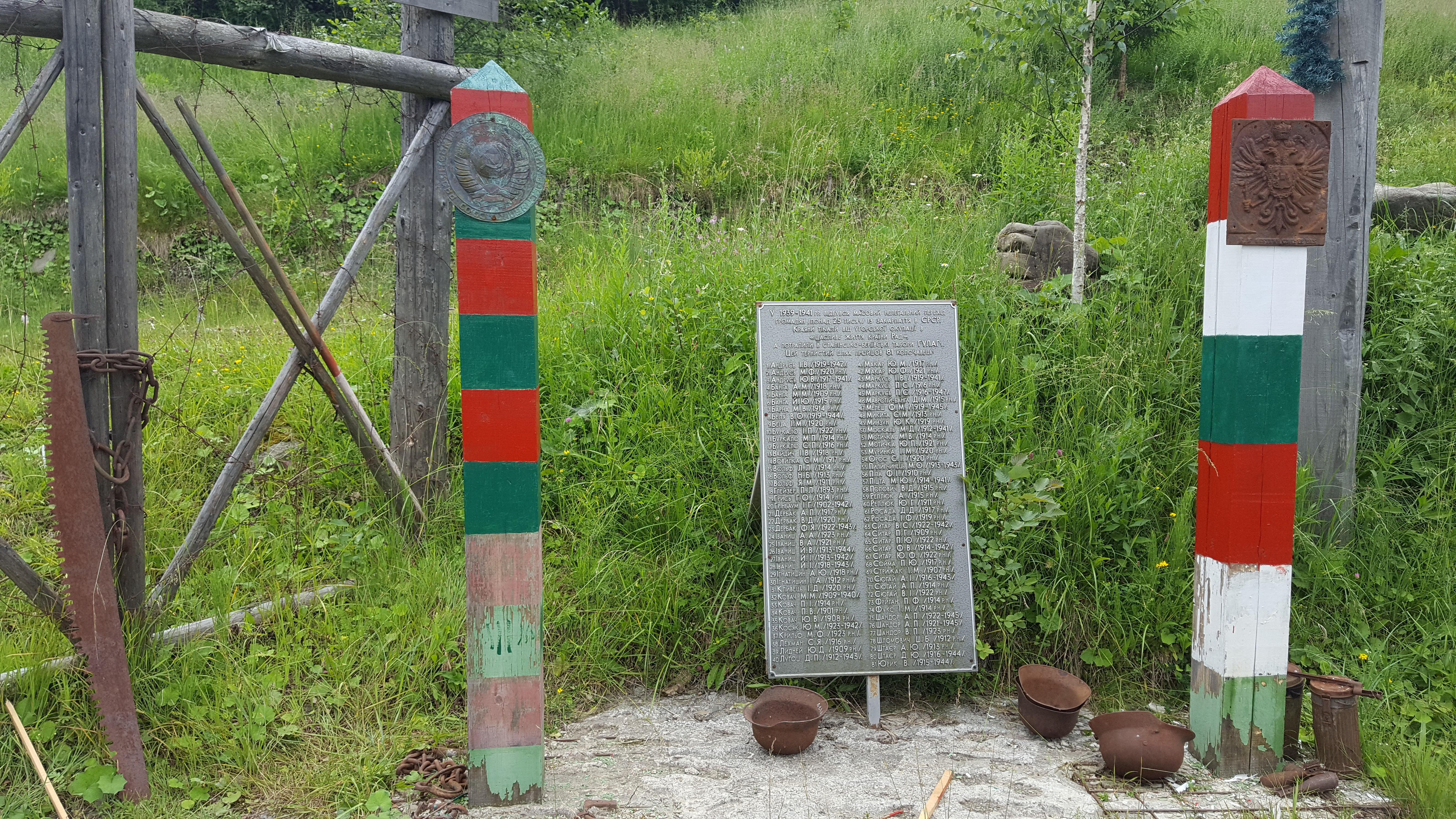 Monument to the citizens of Kolochava (Ukraine), who emigrated to the Soviet Union during World War II and were put to prison camps there. Located within "Stare Selo" open air museum.